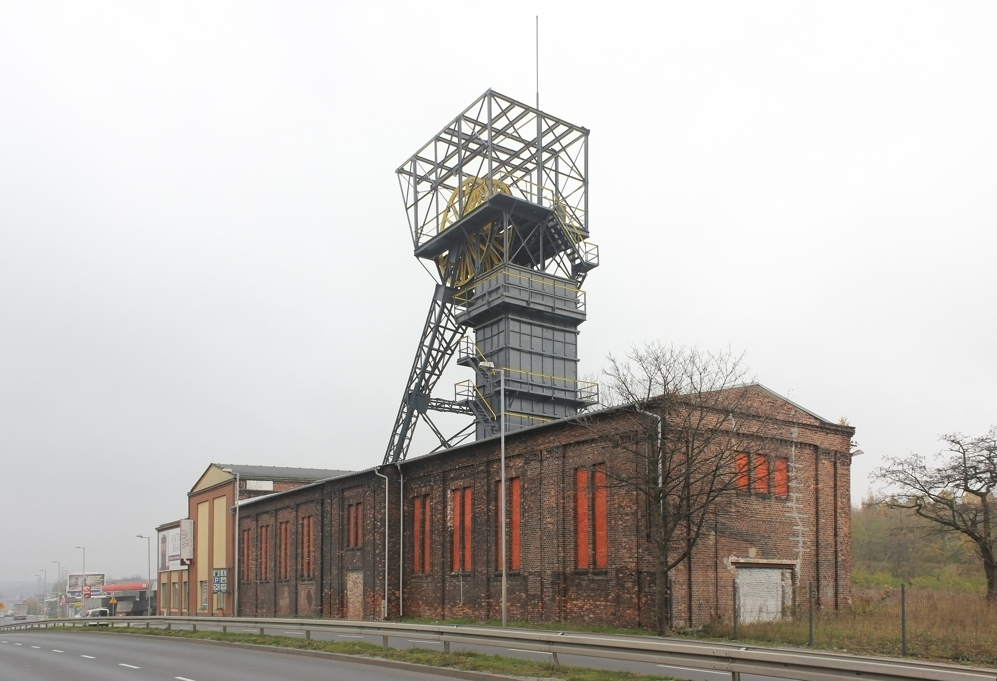 Katowice - tower the East shaft No. 2 at the old Kleofas mine